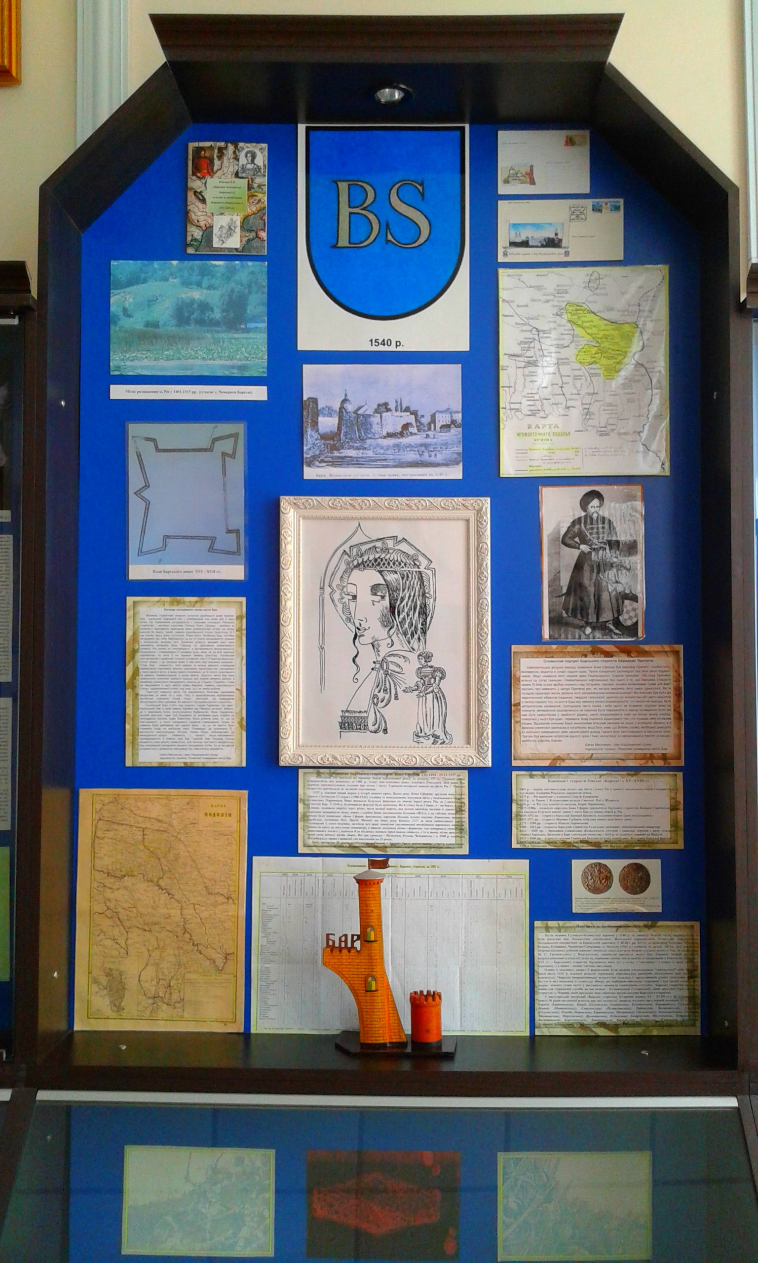 (01) WIKIPEDIA THE ORIGINAL BAR ARMS AT BAR CITY HISTORY MUSEUM IN TOWN OF BAR VINNYTSIA REGION STATE OF UKRAINE